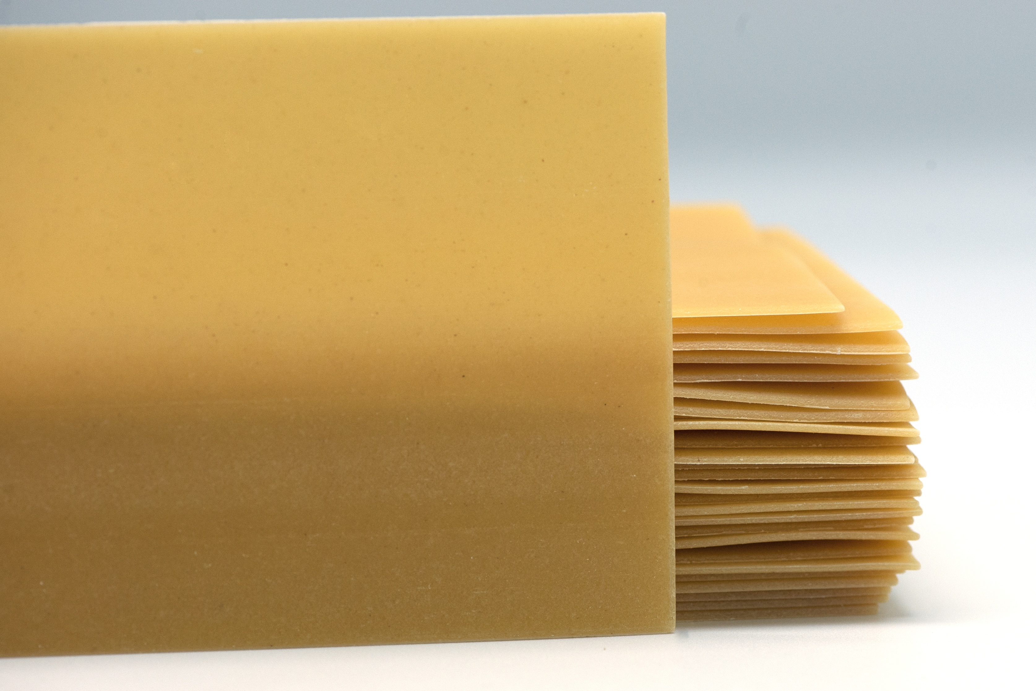 Lasagna is a type of sheet pasta